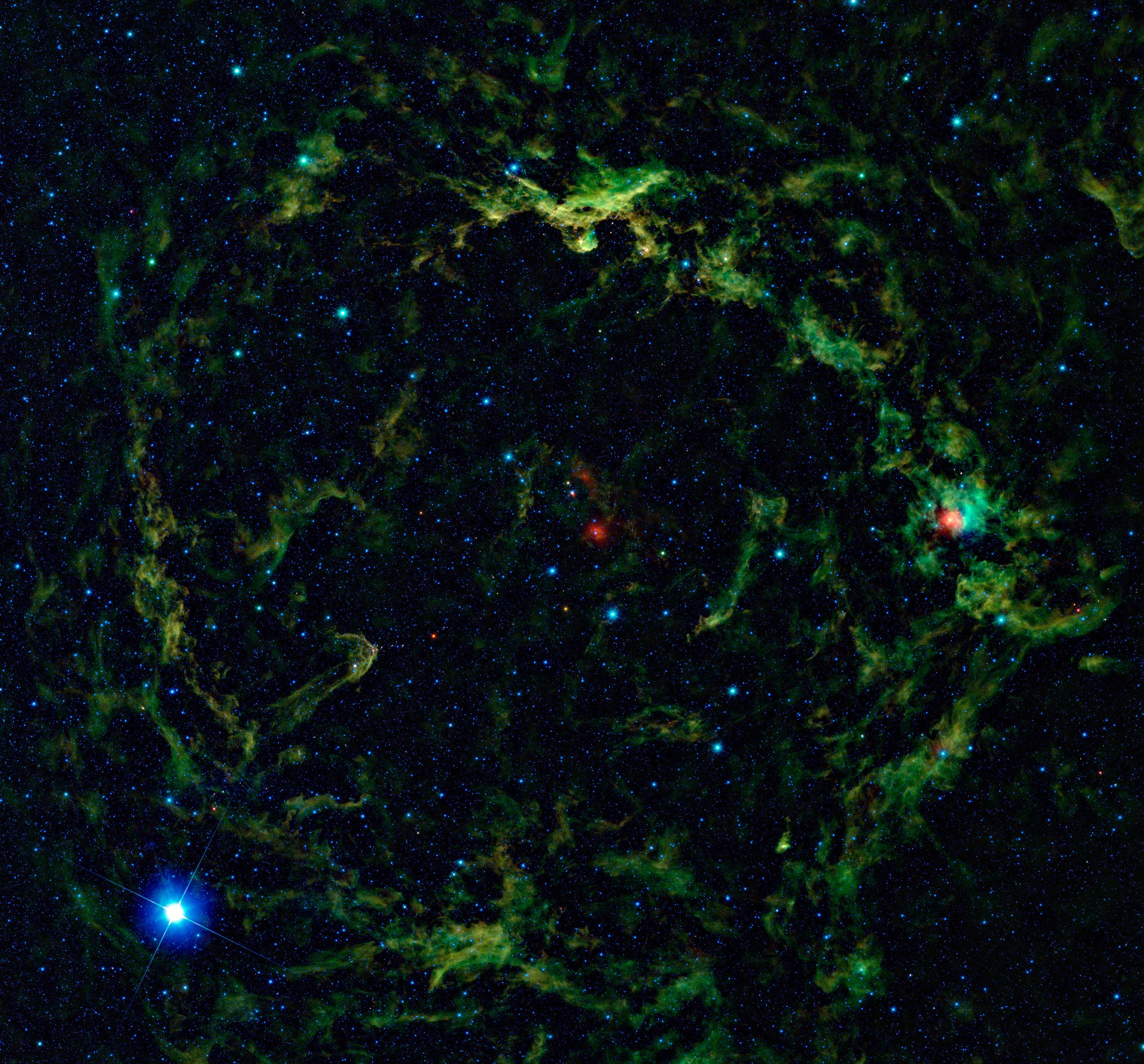 The head (Meissa) and shoulders (Betelgeuse and Bellatrix) of the constellation Orion with surrounding nebulas as depicted in infrared.